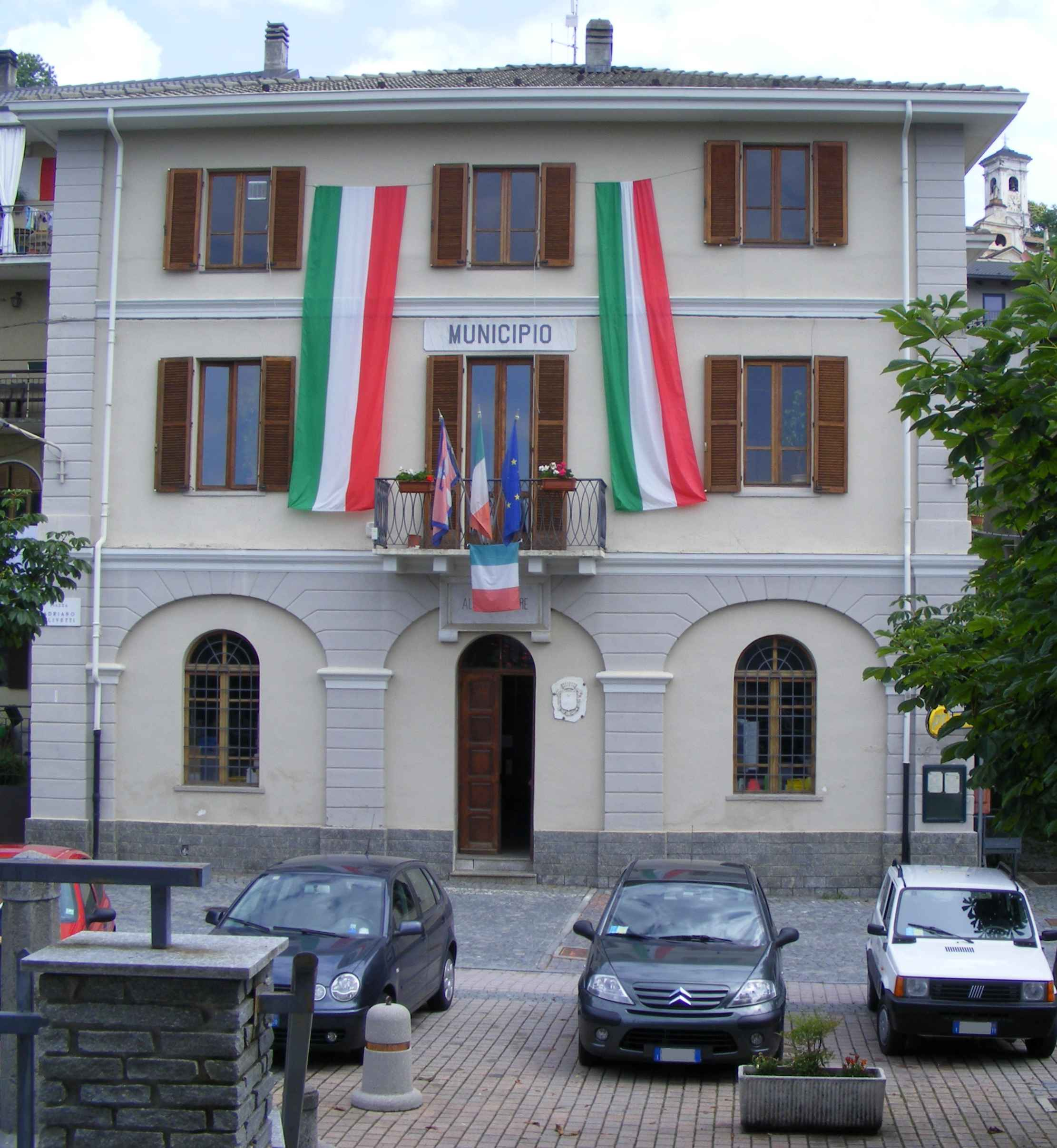 Alice Superiore (TO, Italy): town hall